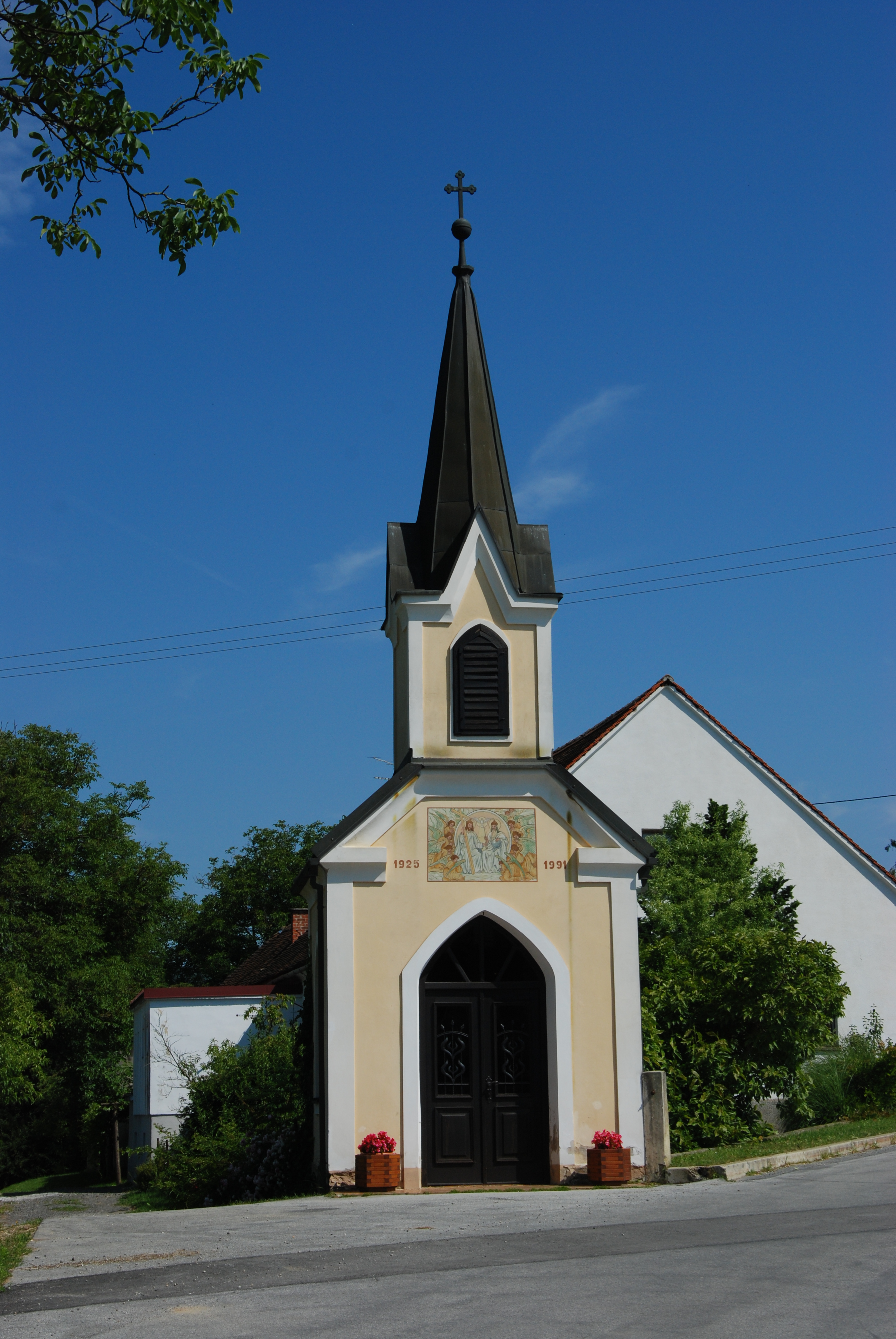 Chapel Rogašovci